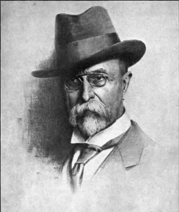 President Thomas Masaryk of Czechoslovakia